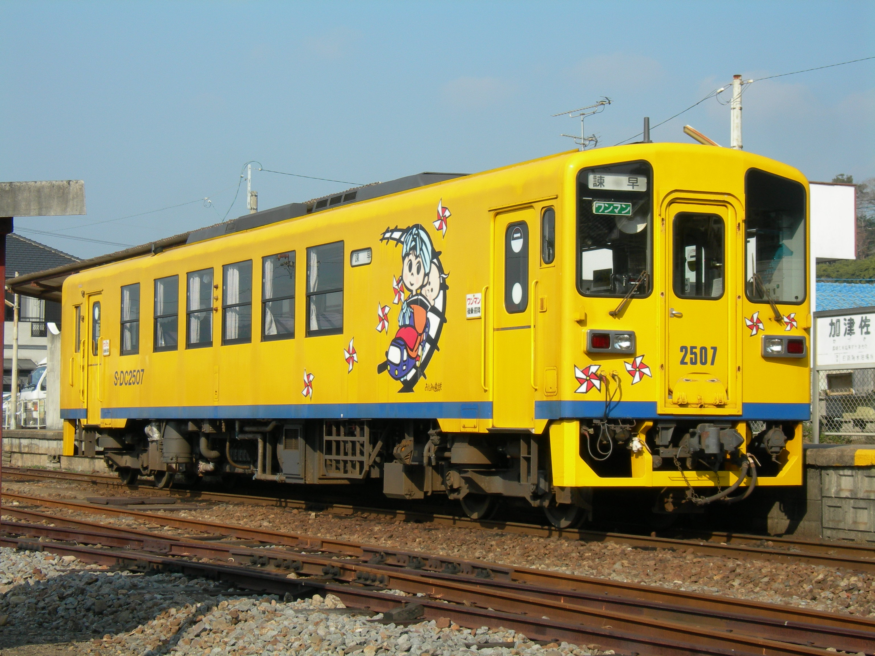 Shimabara Railway Kiha 2507 DMU at Kazusa Station